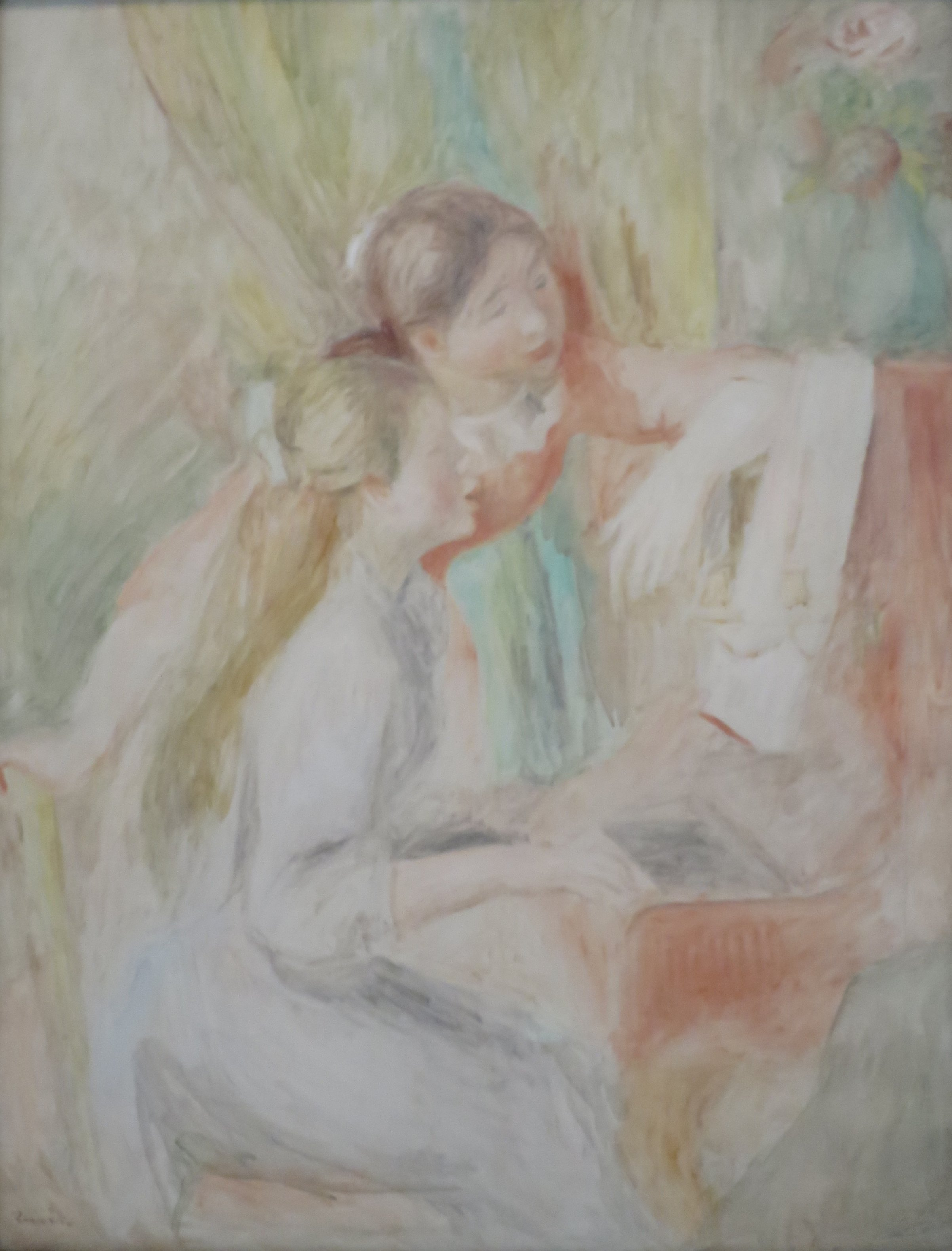 Young Girls at the Piano, oil on canvas painting by Pierre-Auguste Renoir, c. 1892, Hermitage